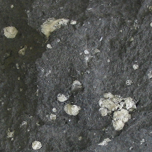 Dark groundmass is andesite. Amygdaloidal structure, vesicules are filled with zeolite. Diameter is 8 cm. Rock sample belongs to the University of Tartu.